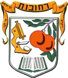 Coat of arms of the city of Rehovot